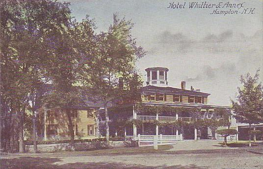 Hotel Whittier & Annex, Hampton, NH; from a c. 1910 postcard.